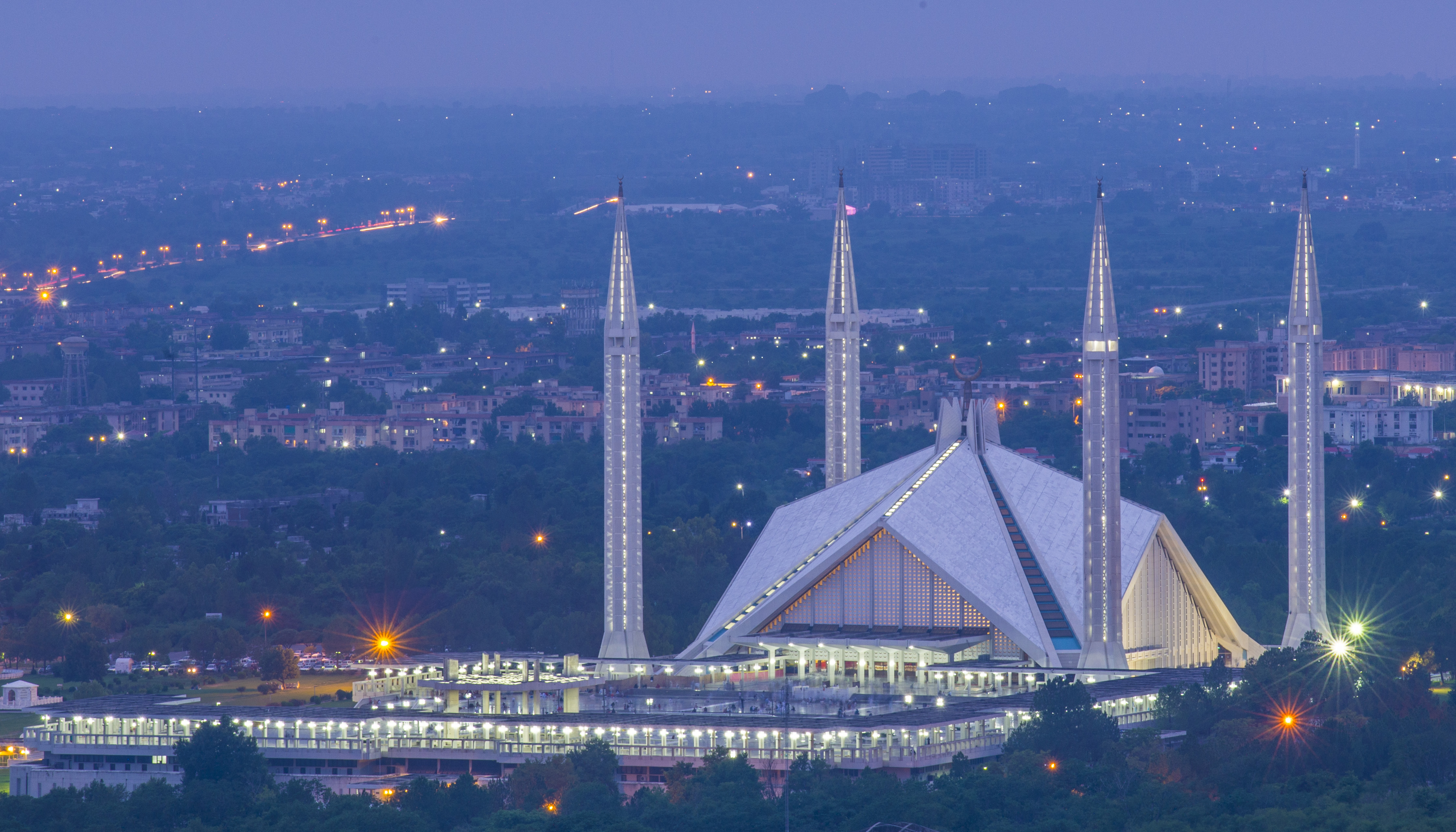 Faisal Mosque This is a photo of a monument in Pakistan identified as the ICT-5